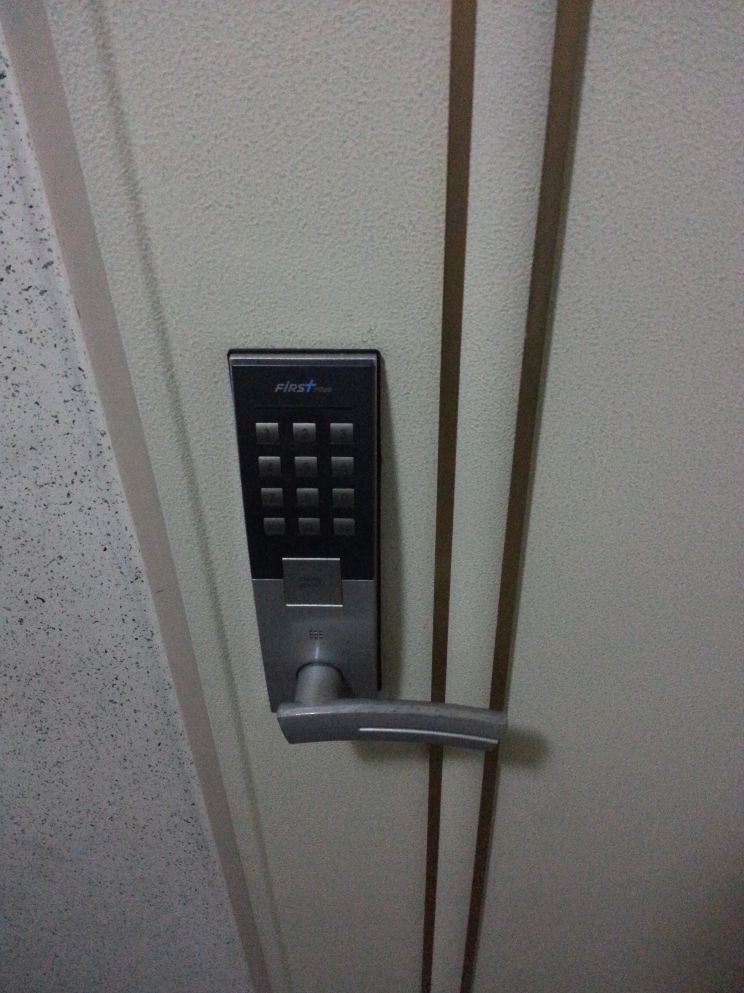 A doorlock.